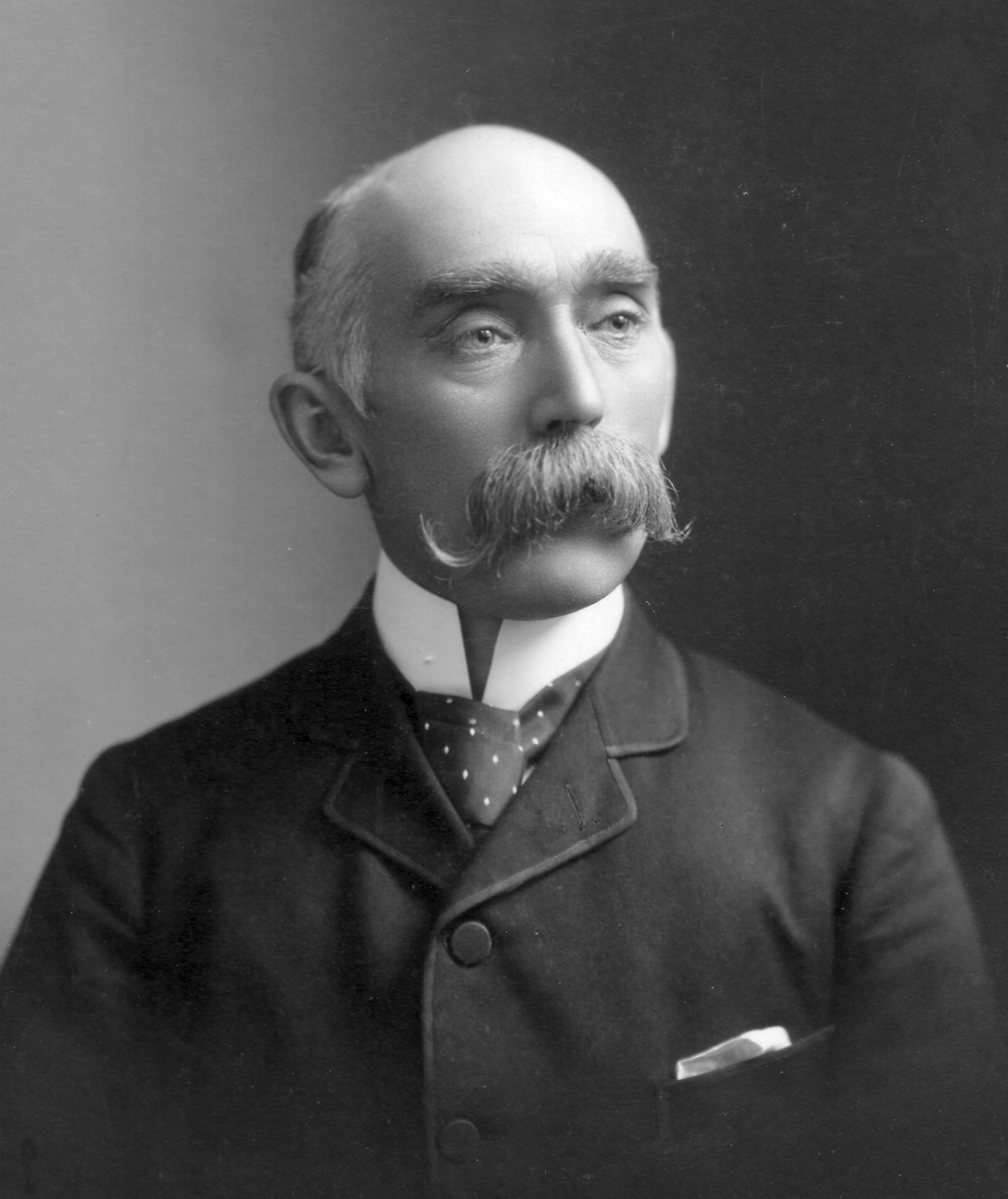 Portrait of Peter Henderson Bryce taken in 1890 by Lancefields of Ottawa.